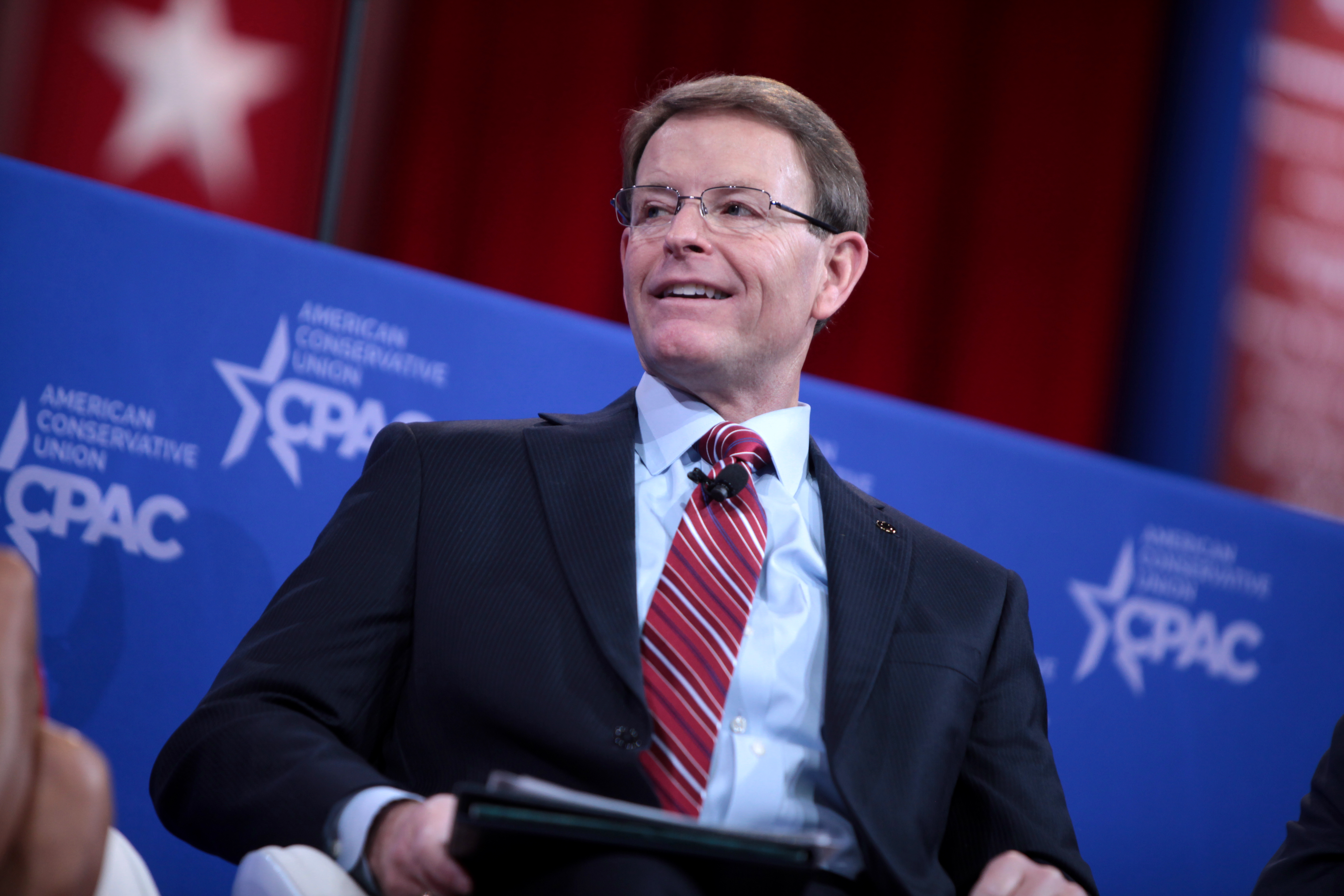 Tony Perkins speaking at the 2015 Conservative Political Action Conference (CPAC) in National Harbor, Maryland.